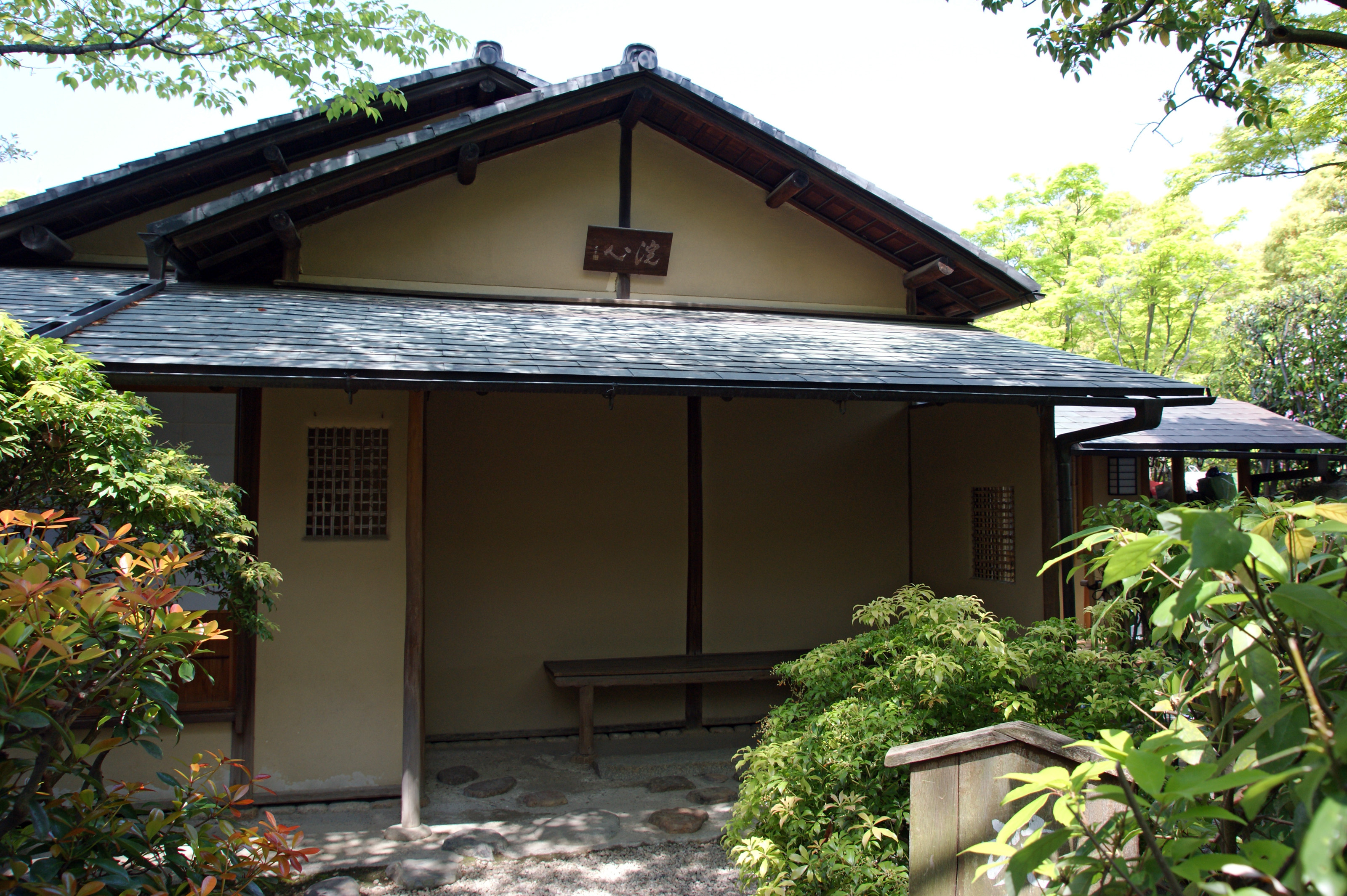 "Sorakuen" in Kobe, Hyogo prefecture, Japan